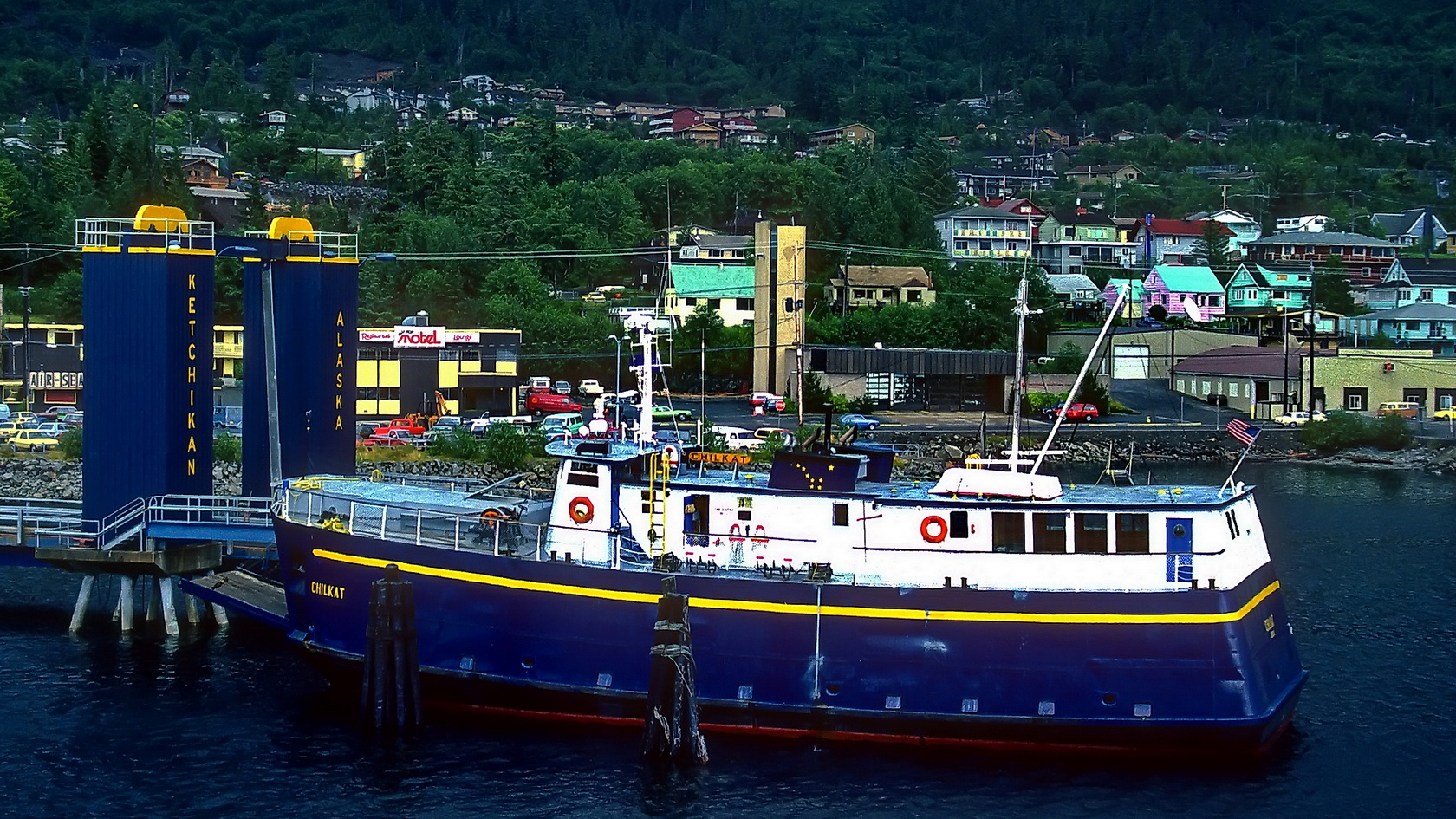 This is the M/V Chilkat taken in Ketchican, Alaska. Photo from 2 August, 1985 by Jim Thorne, Wett Coast on Flickr.